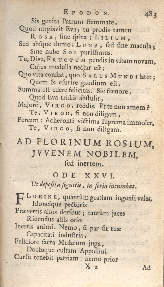 Poésie mariale de Nicolas Avancini